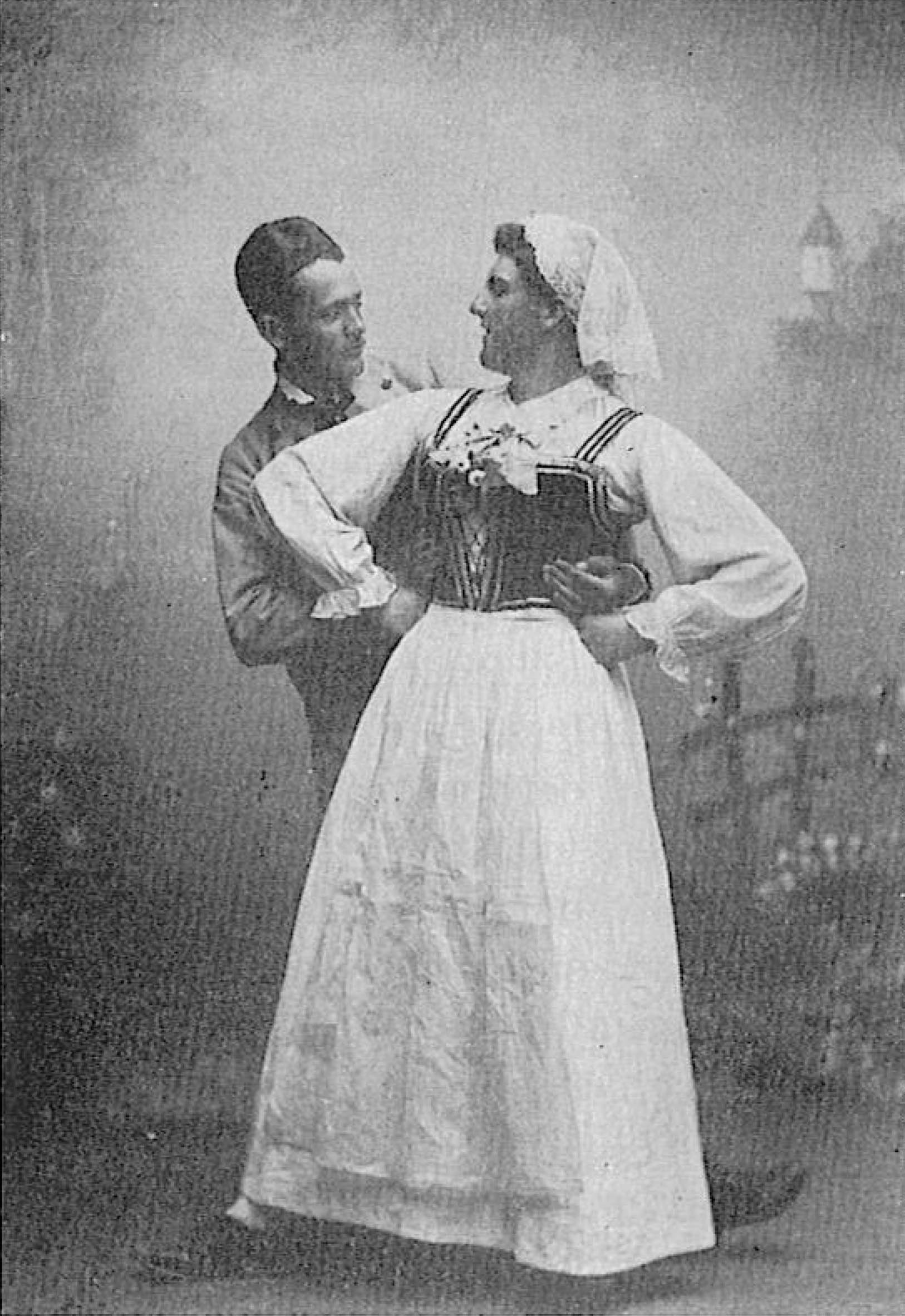 Student- och folk dance organisation Philochoros, Uppsala. Vingåker dance, Philochoros tour 1893. Students Ernst Wilms och Karl Wijkström, Kalmar Nation.